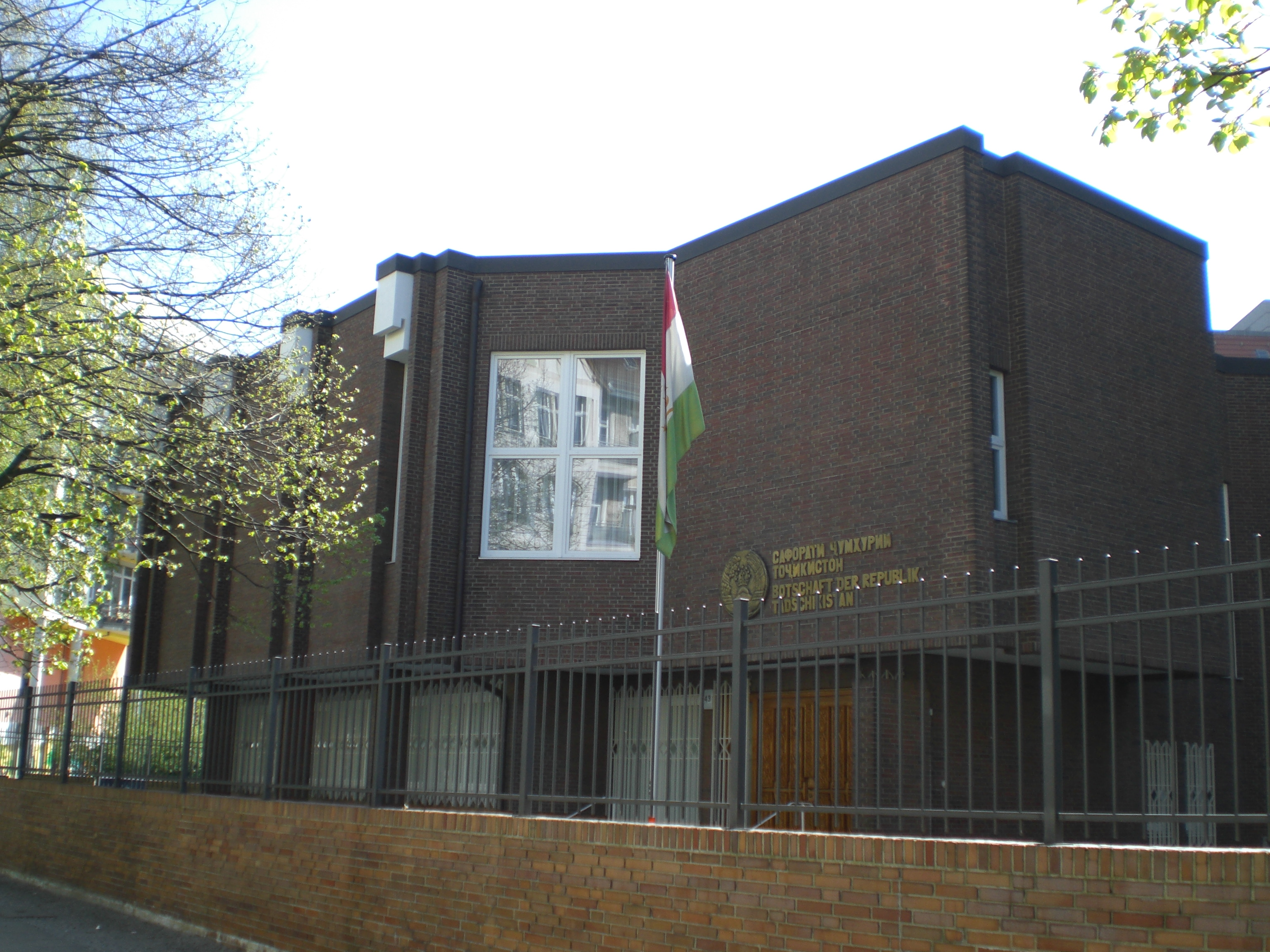 Berlin-Moabit Perleberger Straße Embassy of Tajikistan